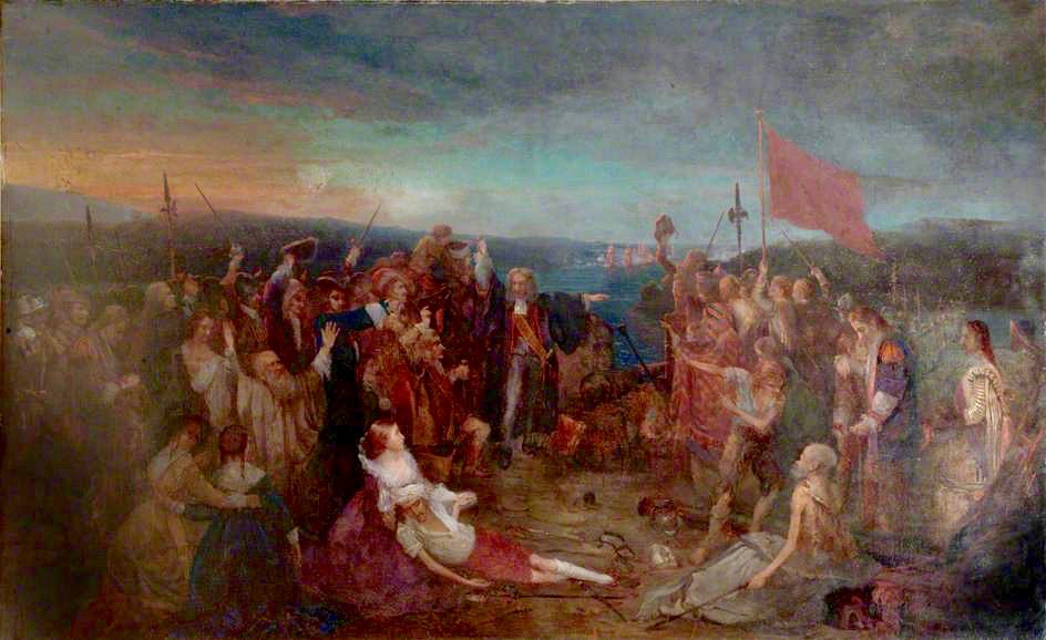 Painting entitled The Relief of Derry by George Frederick Folingsby (1828-1891).